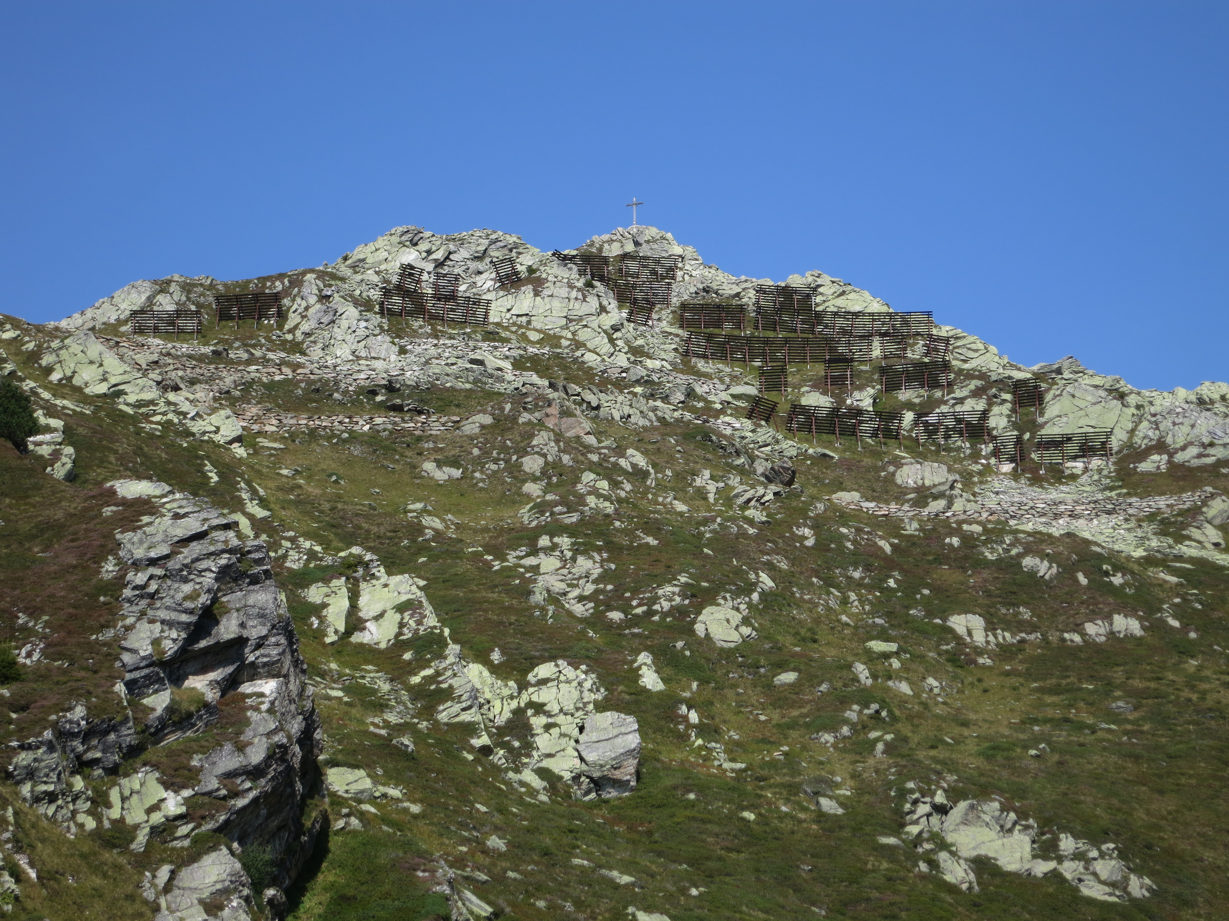 Zamangspitze, mountain in Vorarlberg, Austria